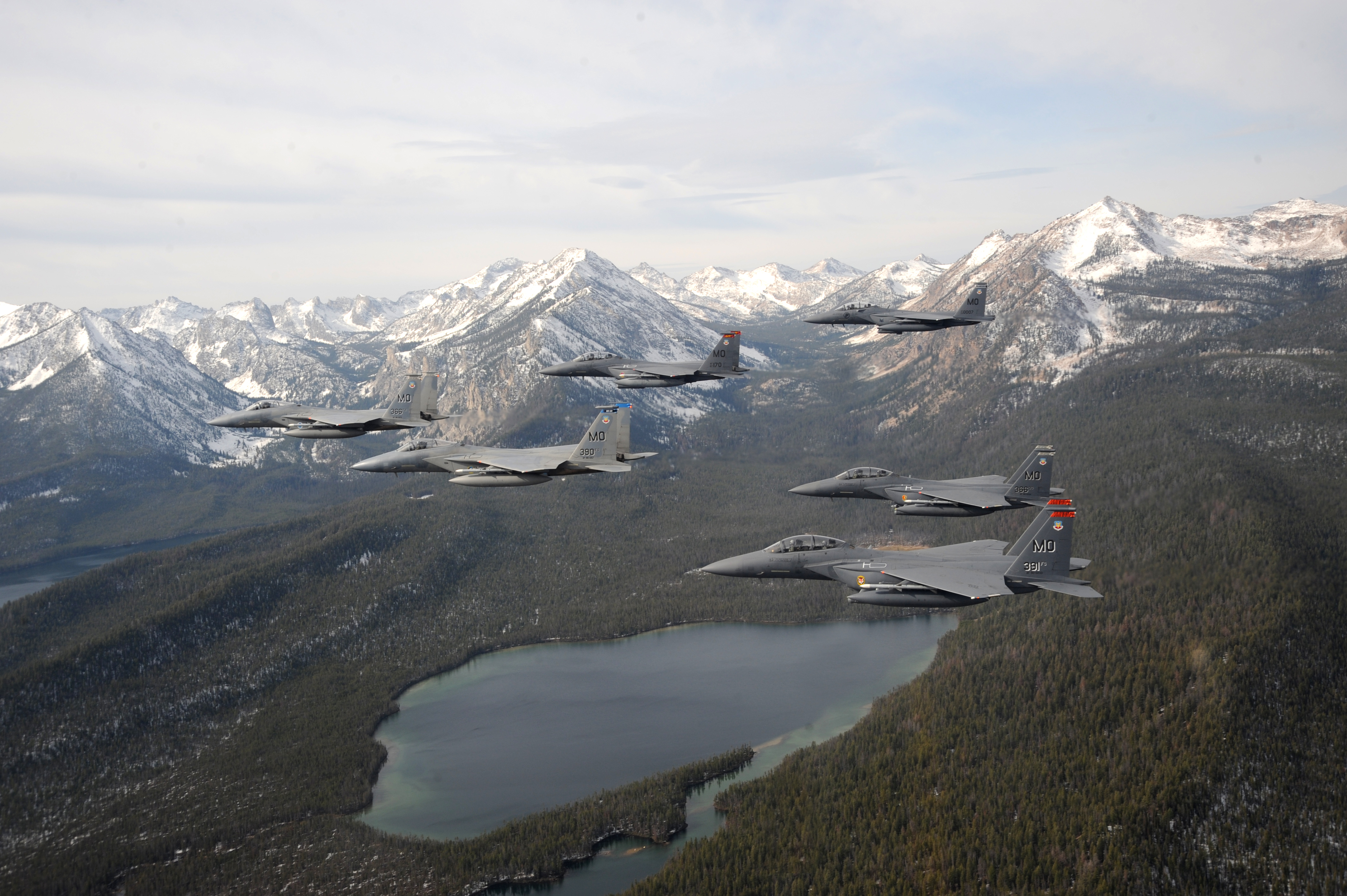 OVER IDAHO - A six-ship formation of F-15C Eagle and F-15E Strike Eagles fly over the Sawtooth Mountains and Yellow Belly Lake of Idaho Oct. 13. (U.S. Air Force photo by Master Sgt. Kevin J. Gruenwald)